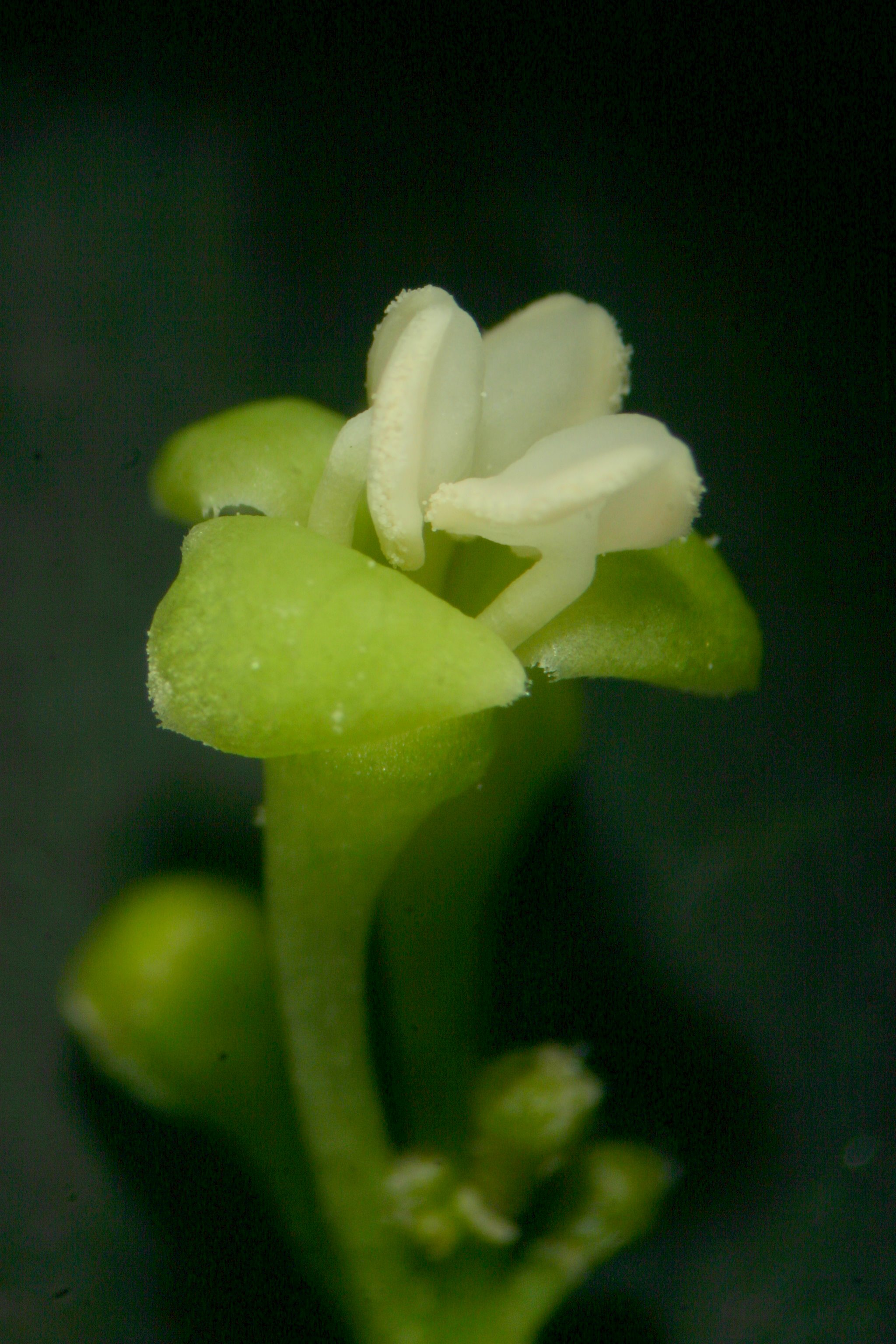 Male flower of Grevea madagascariensis Bail., Collection Number RMM 475, collected near Maintirano/Madagascar, cultivated at Palmengarten Frankfurt